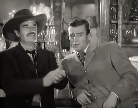 Harry Woods (left) & John Wayne in In Old Oklahoma aka War of the Wildcats - cropped screenshot